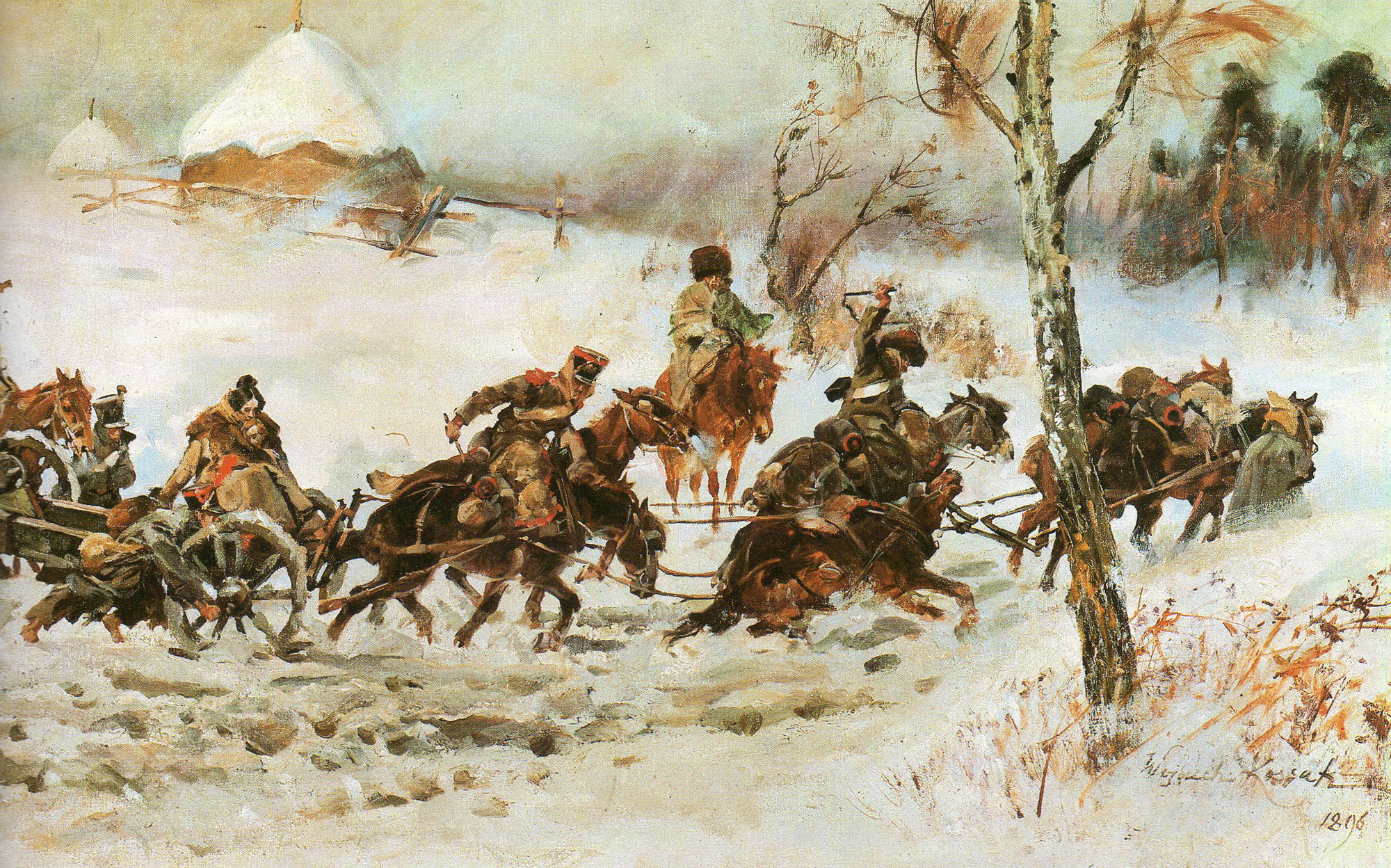 1812, Artillery in retreat